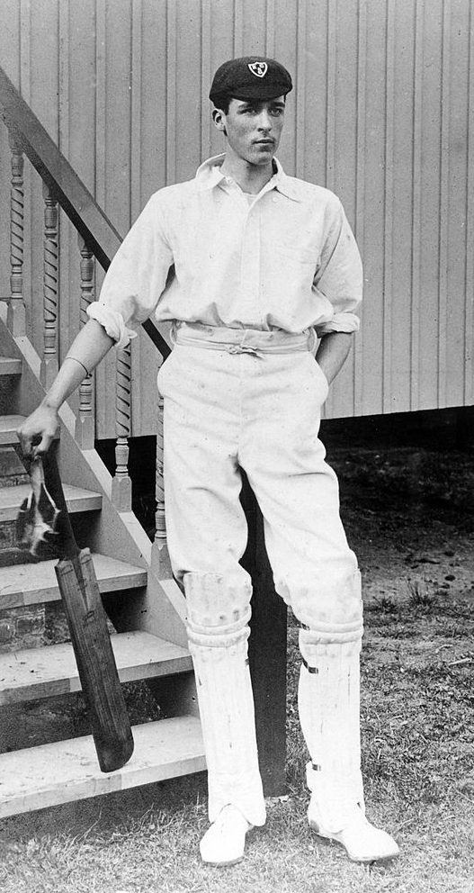 Kent and England batsman Frank Woolley, circa 1906.